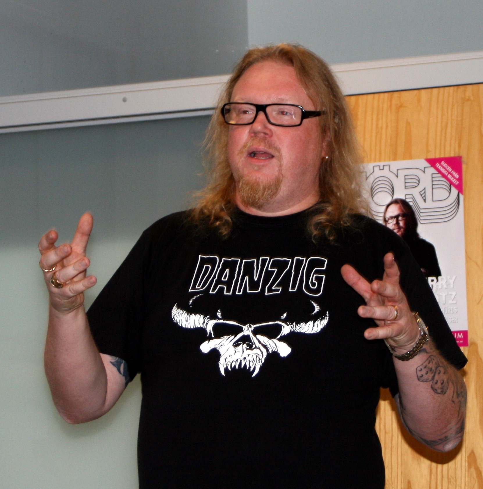 Jerry Prütz, giving a presentation in Linköping, at Datamuseet, Östergötlands länsmuseum